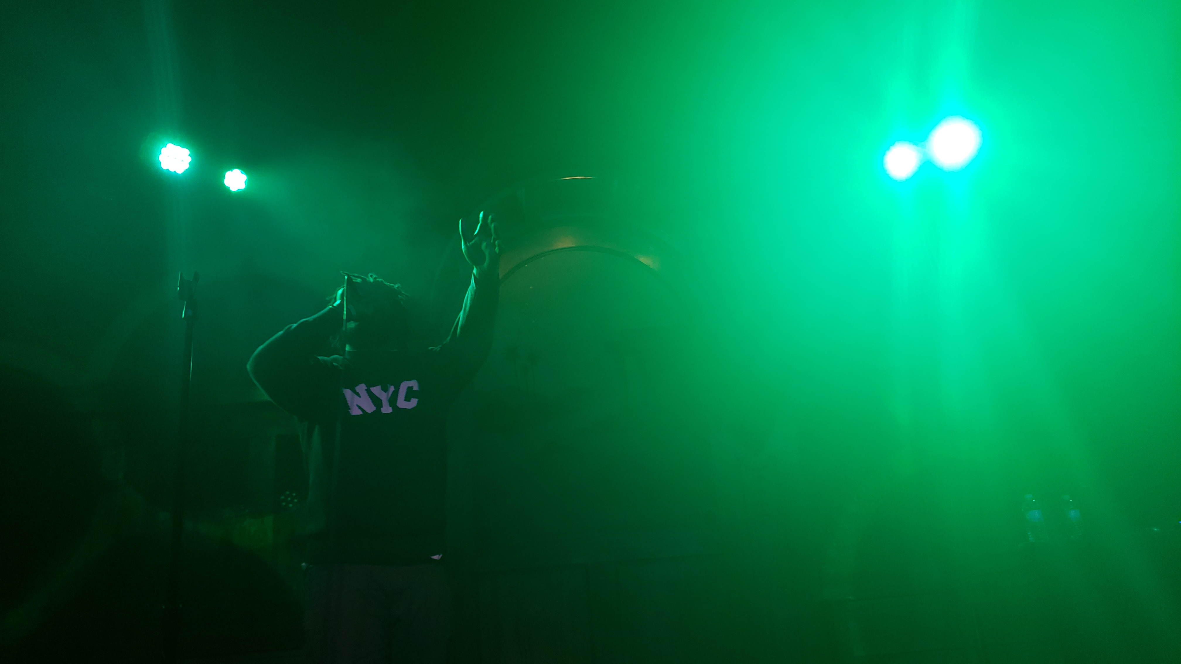 MIKE (musician) performing one of his songs at a Highland Park show.